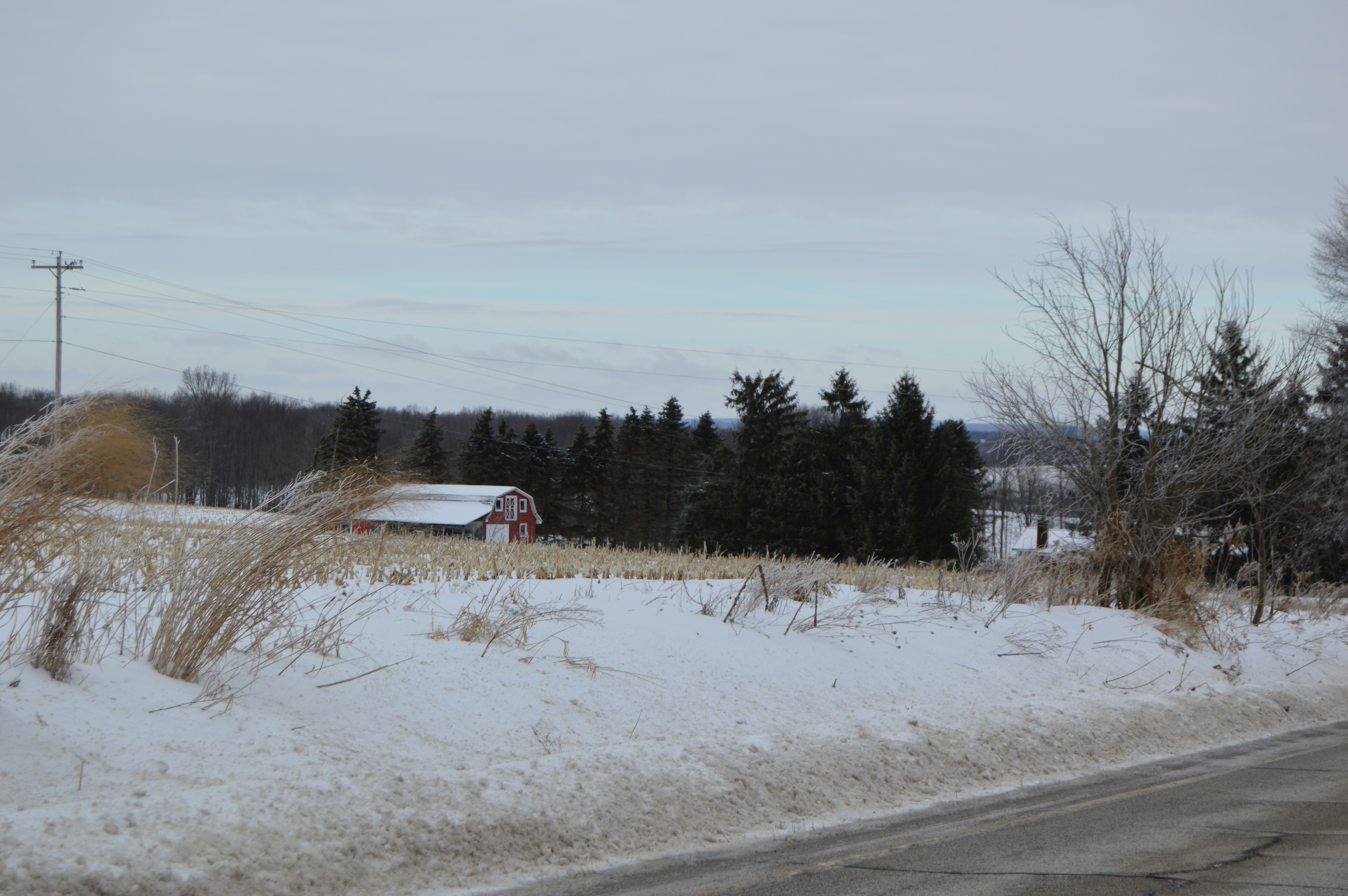 A stubble field on the western side of Pennsylvania Route 86 south of Woodcock in Woodcock Township, Crawford County, Pennsylvania, United States.